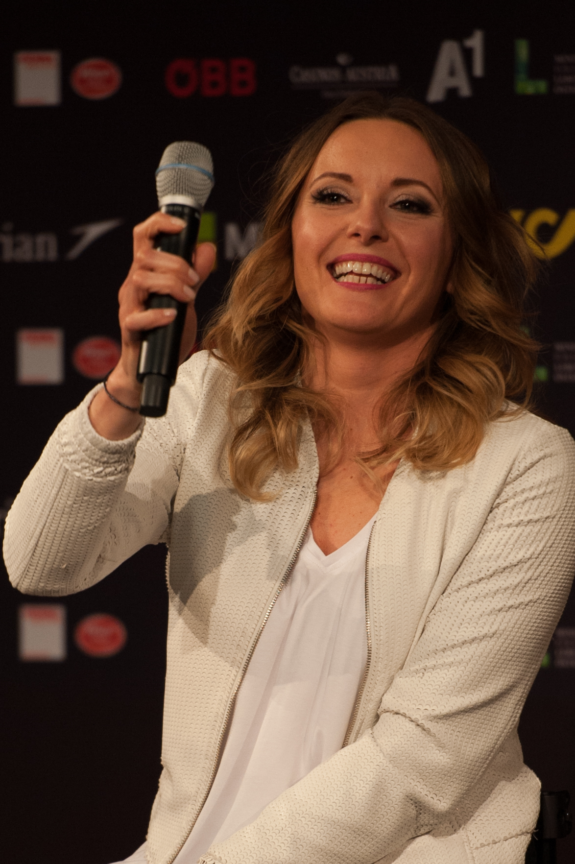 Eurovision Song Contest Vienna 2015: Monika Kuszyńska